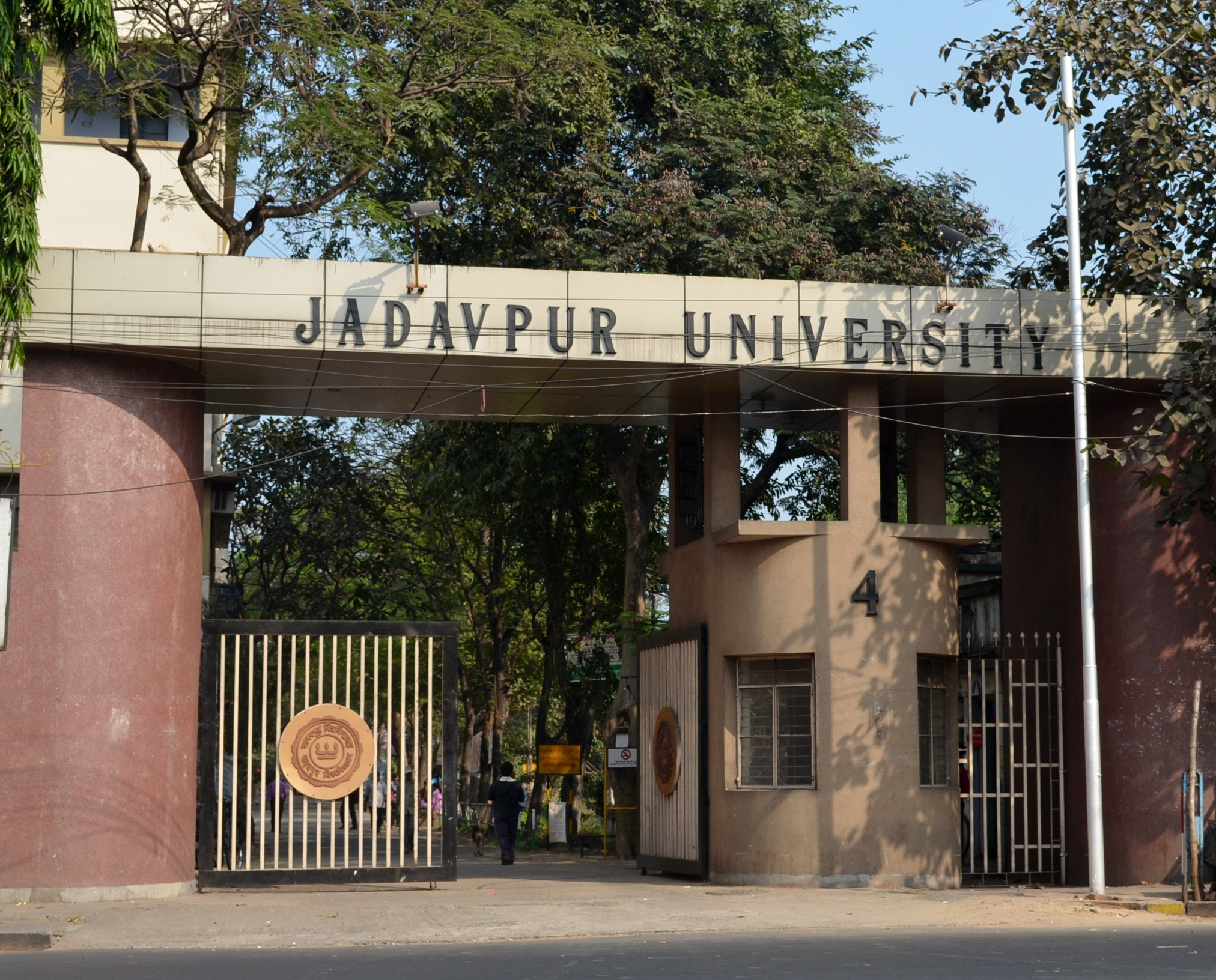 The entry to the Arts Faculty of Jadavpur University.